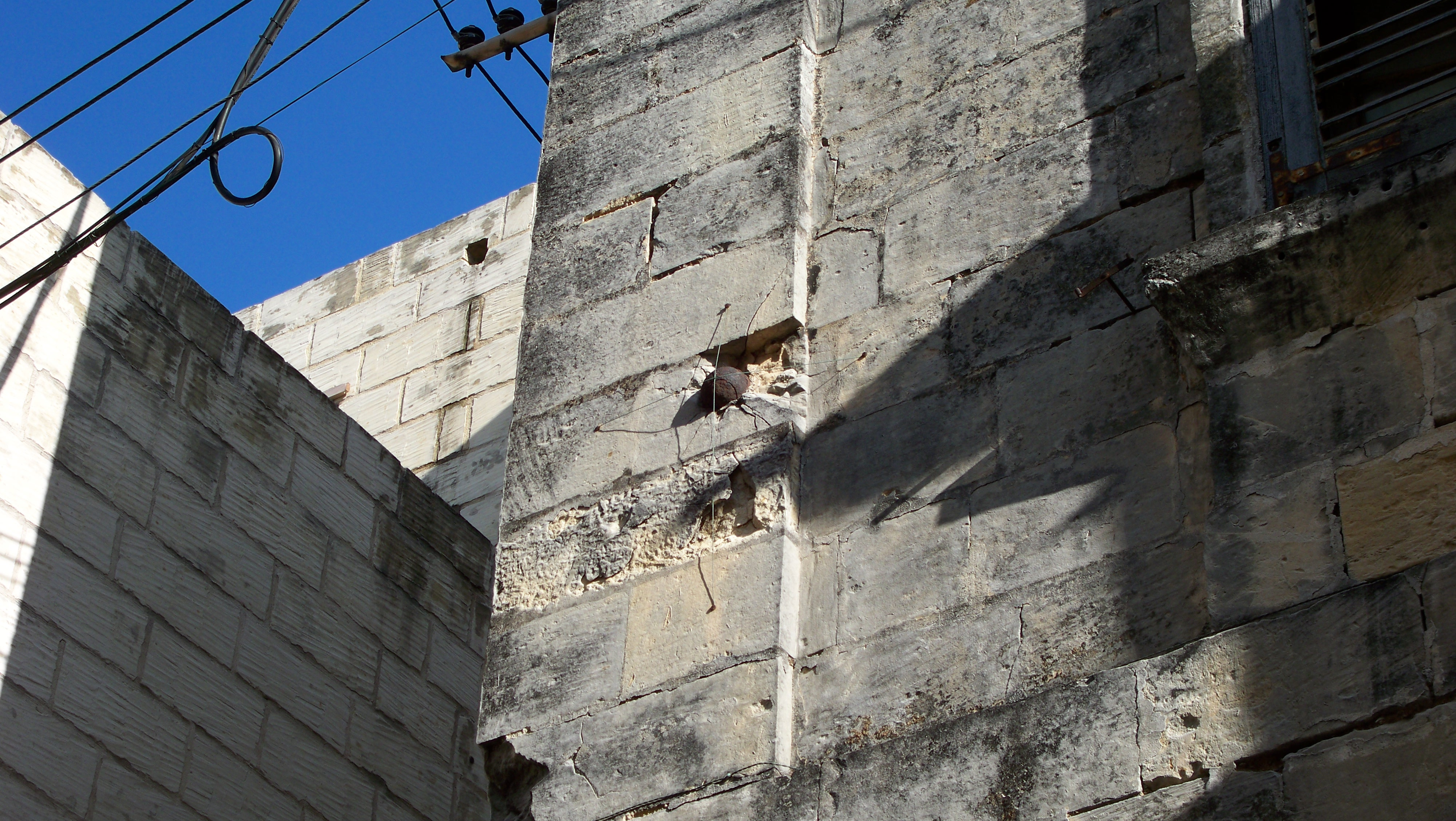 French-era cannonball in façade in Maltese locality of Zabbar